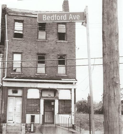 HeyYallYo Historic home of August Wilson in Pittsburgh